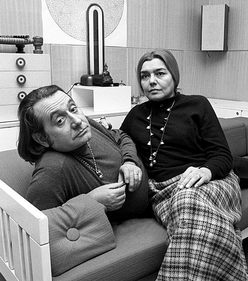 The Italian architect and designer Ettore Sottsass is sitting in his home with his wife, the Italian writer and translator Fernanda Pivano. Milan, March 1969